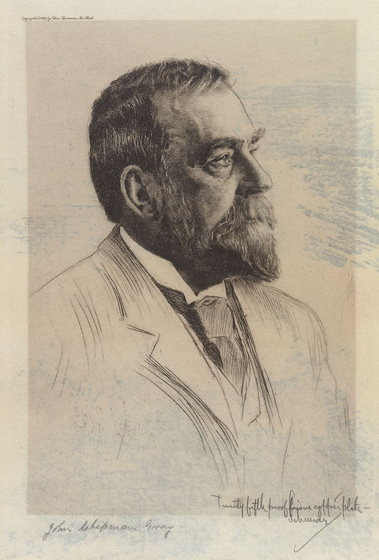 John Chipman Gray (1839-1915)